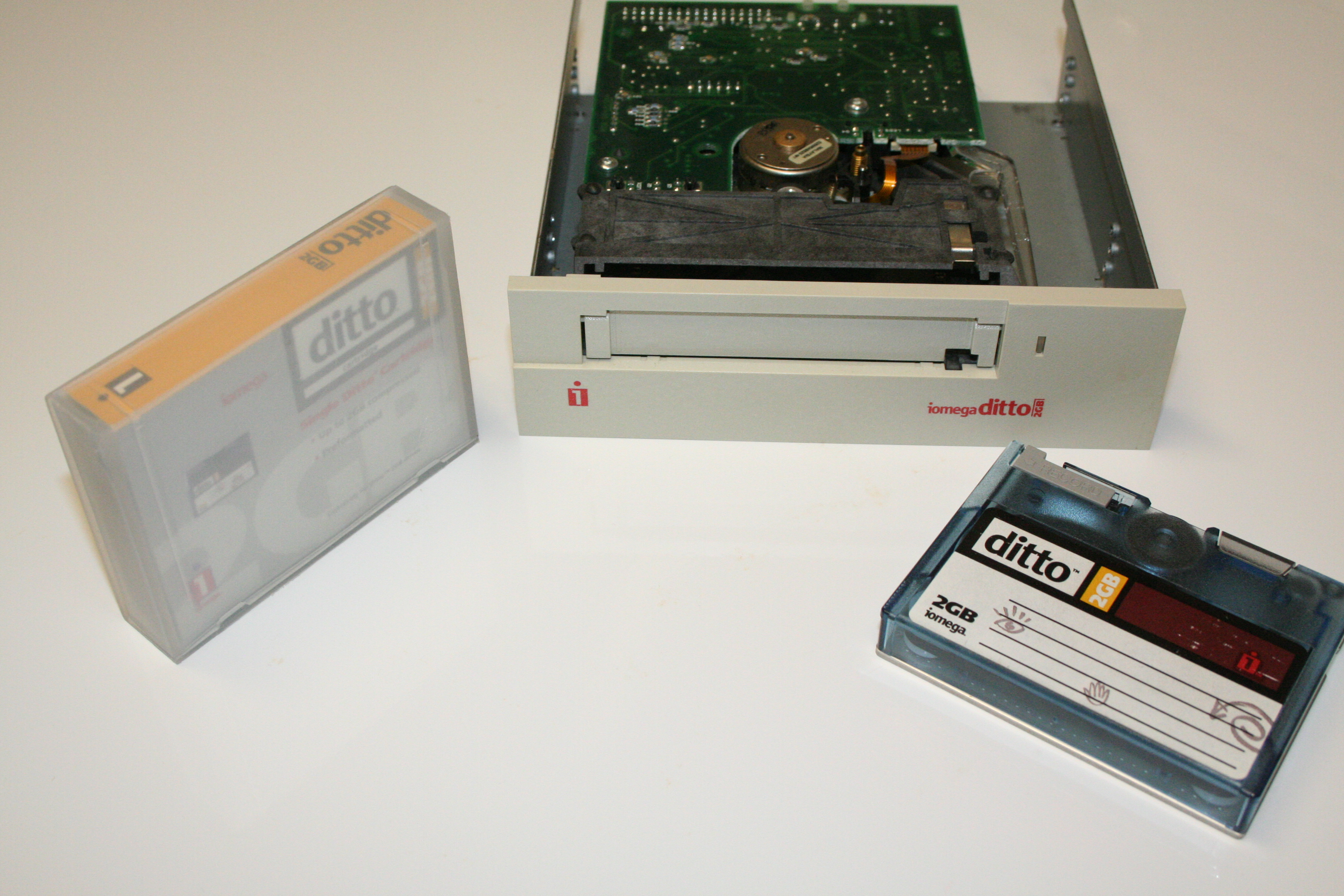 Iomega Ditto internal drive 2GB tape with case. Drive is labeled with "Model IO2000Wi", Made in USA on underside. Connects to floppy interface. Tape is labeled QIC148W on bottom.